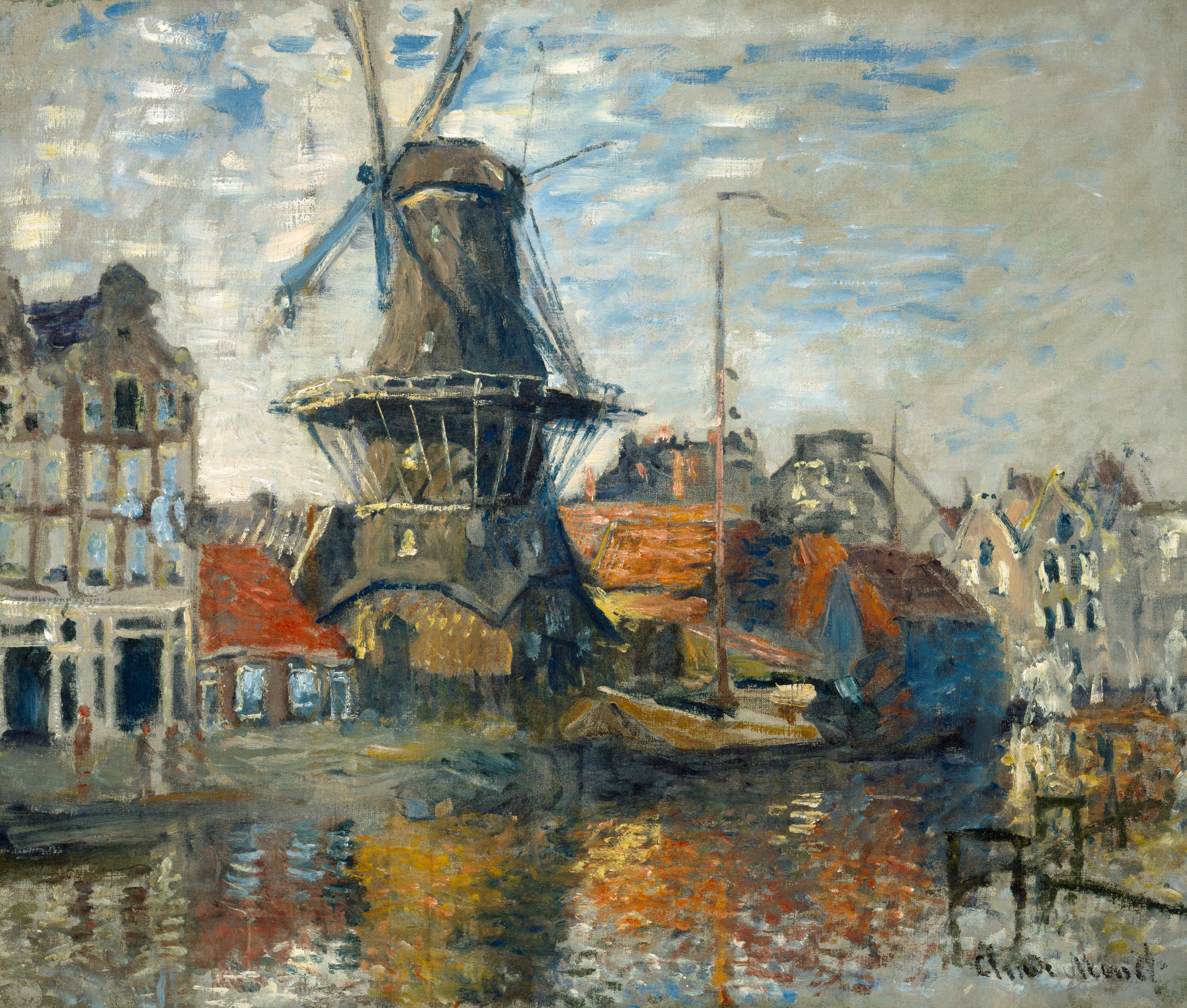 The Windmill, Amsterdam